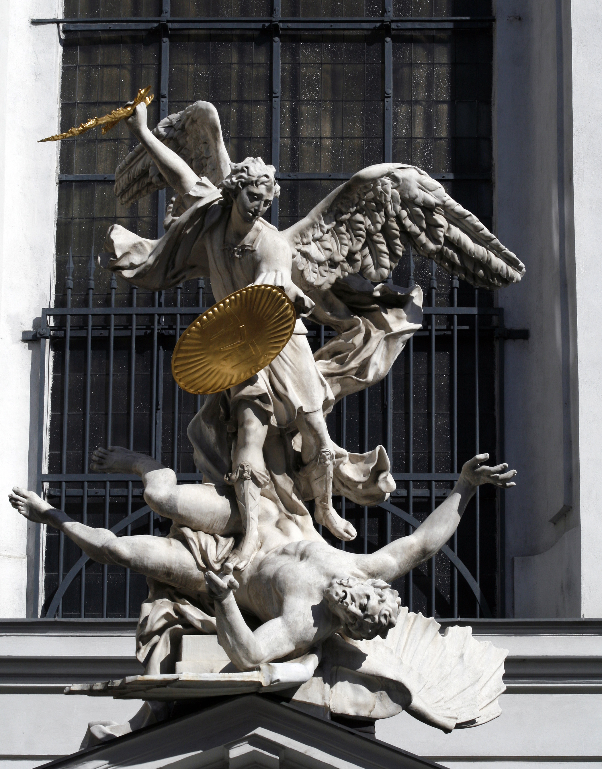 Sculpture of archangel Michael above the entrance of the Michaelerkirche in Vienna.